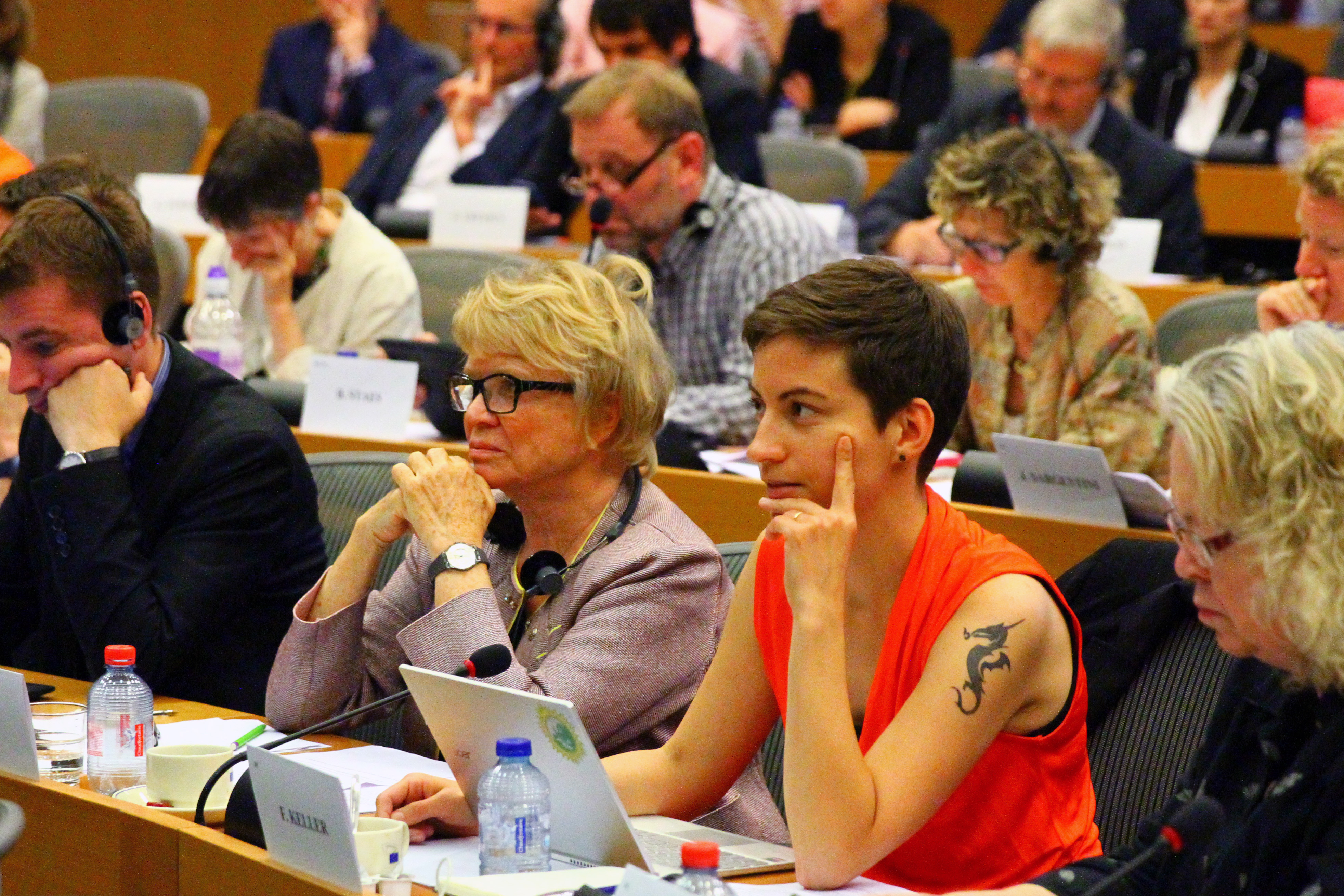 MEPs Joly and Keller at a hearing with Jean-Claude Juncker of the Greens/EFA parliamentary group